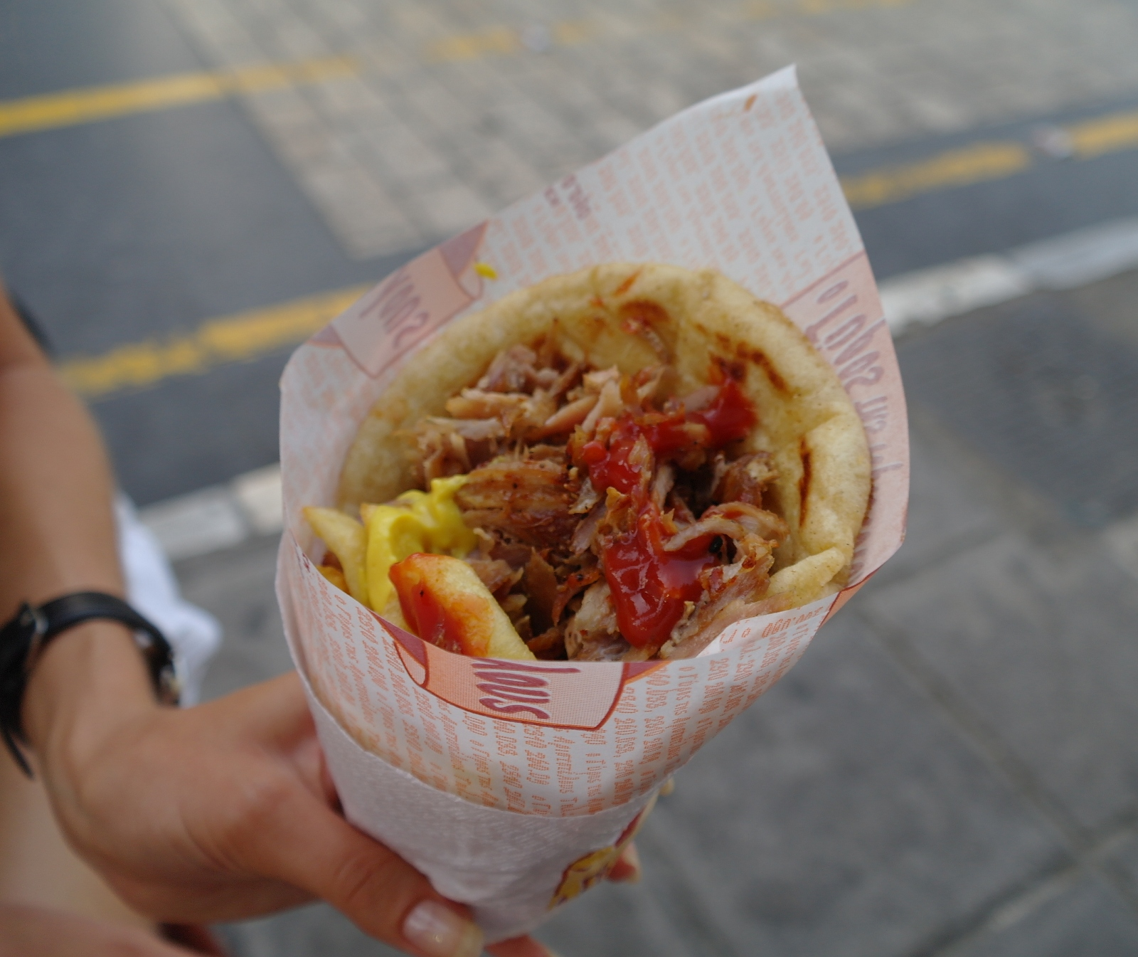 Pita gyro